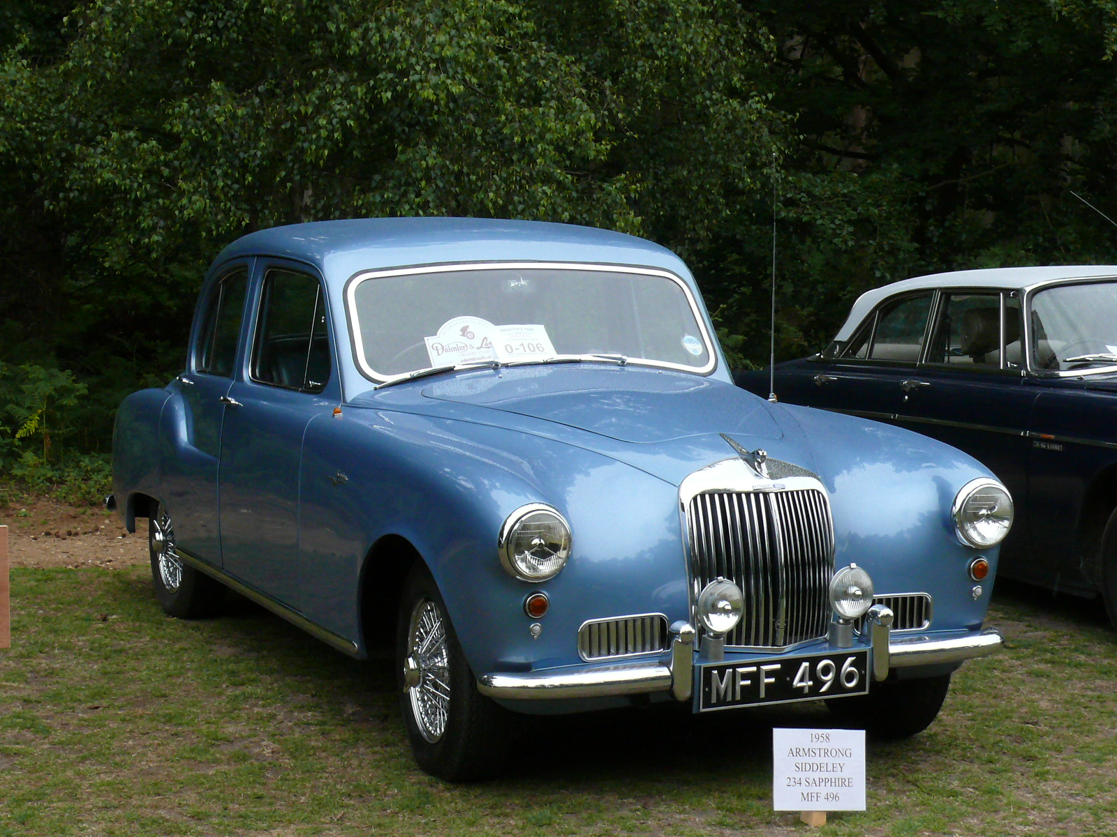 Armstrong Siddeley 234 Sapphire MFF 496Daimler & Lanchester Owners Club, International Rally, Queen's Birthday weekend, Sandringham, Norfolk Sunday 12 June 2011